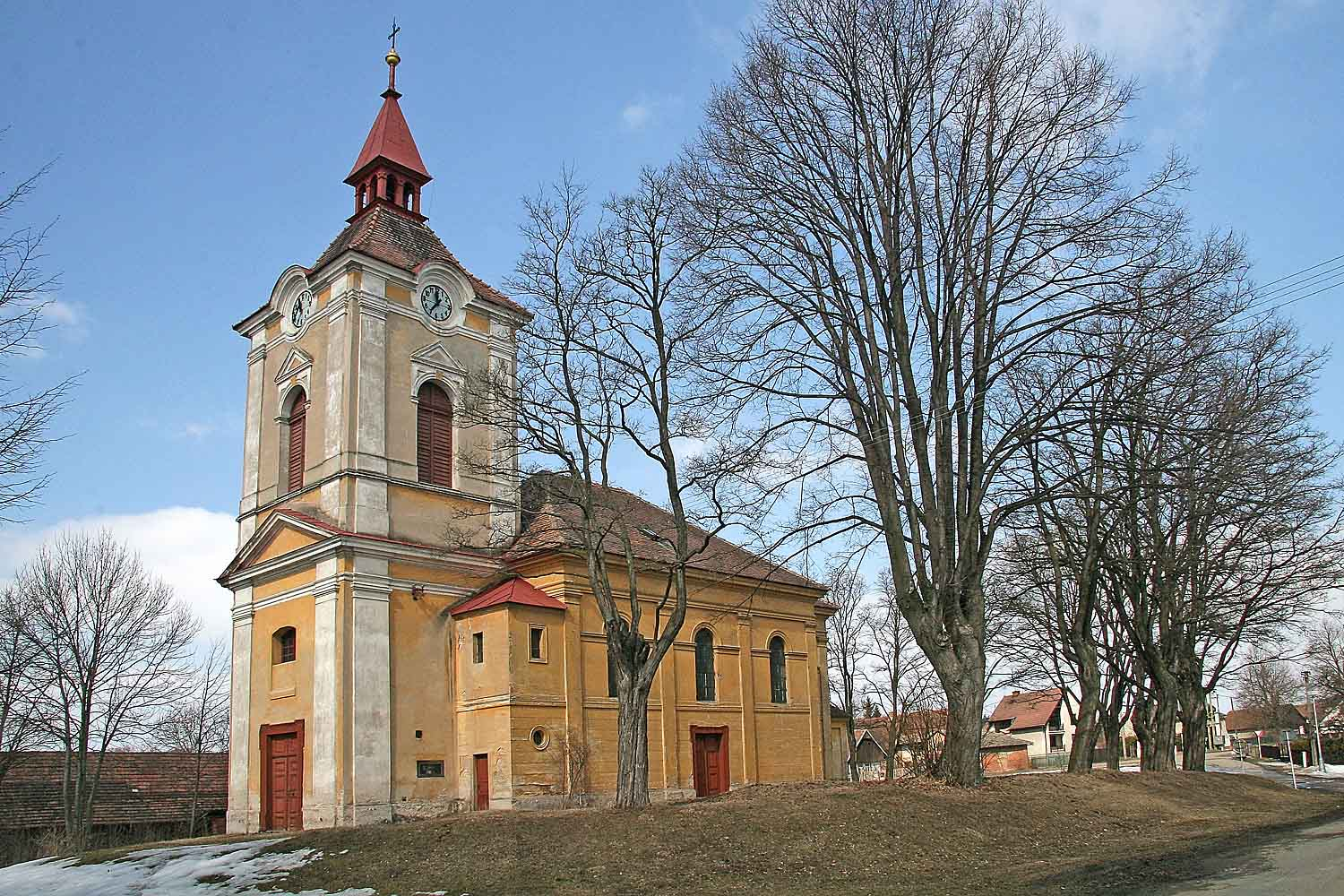 Church of Saint Petr and Paul in village Jeníkovice, district Hradec Králové, Czech republic Autor: Prazak Date: 23. 3. 2006